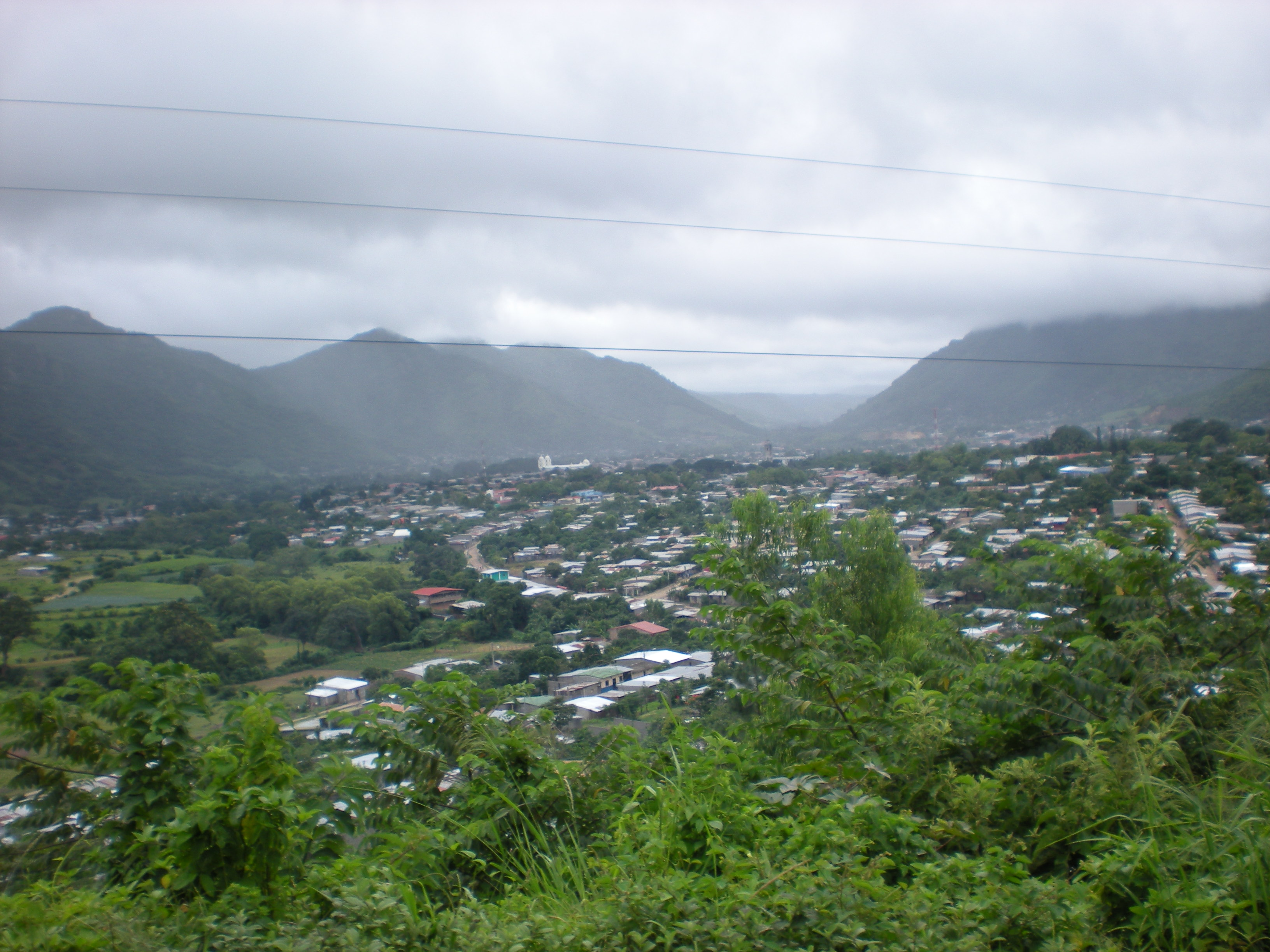 View of the city of Jinotega (Nicaragua) from the southeast